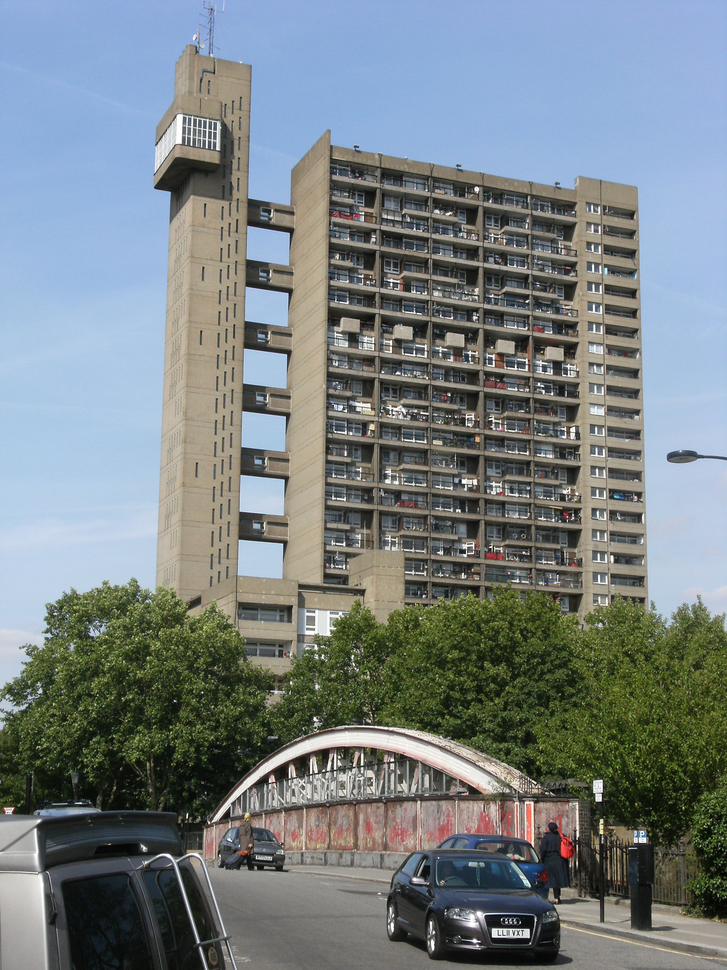 2011-06-07 in London.